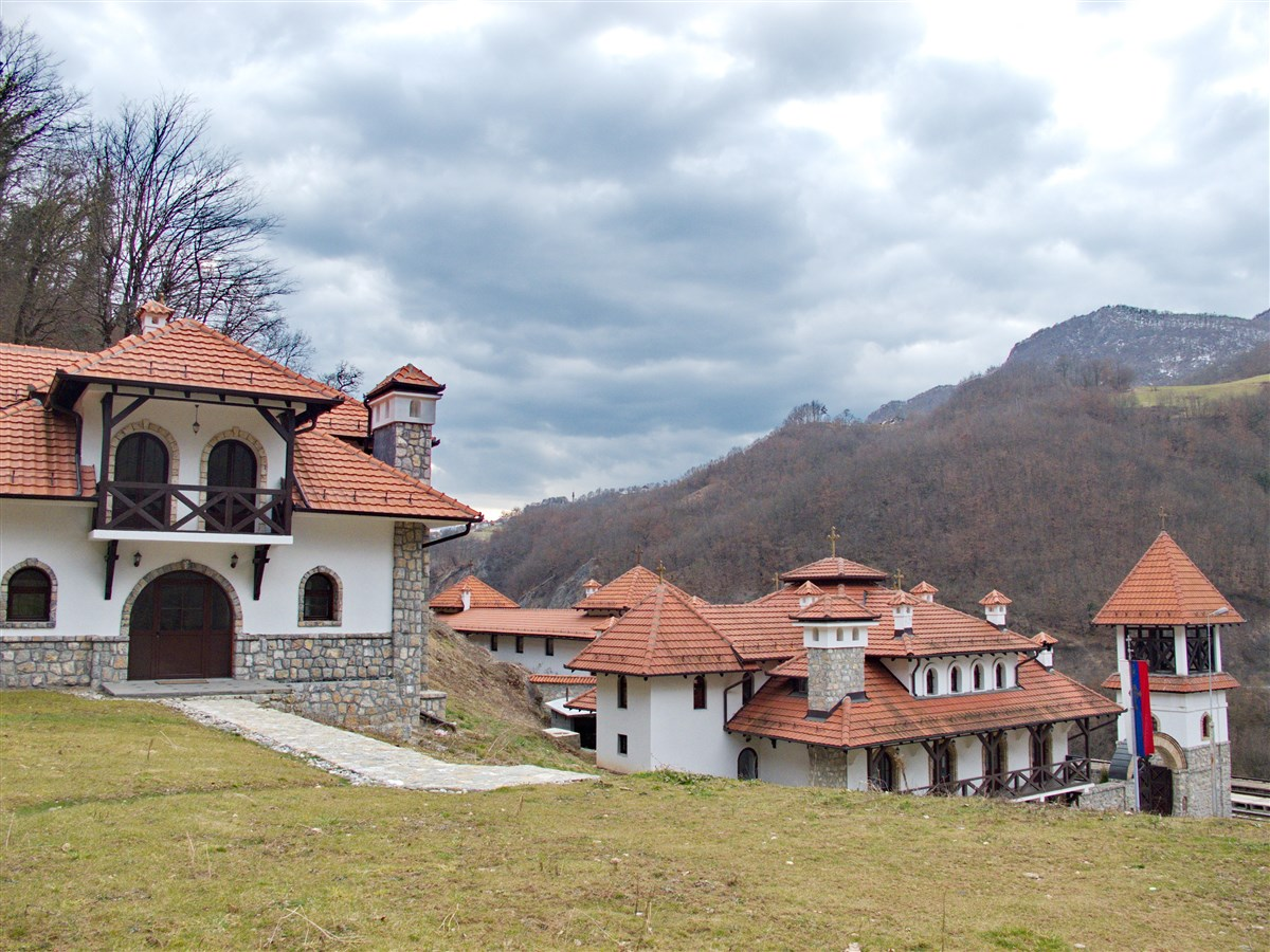 Project "Dicovering Pester" (Projekat "Otkrivanje Peštera"). Sunny winter landscape on the Pester plateau, in Serbia, with snow on mountain slopes and fields , villages and streams.